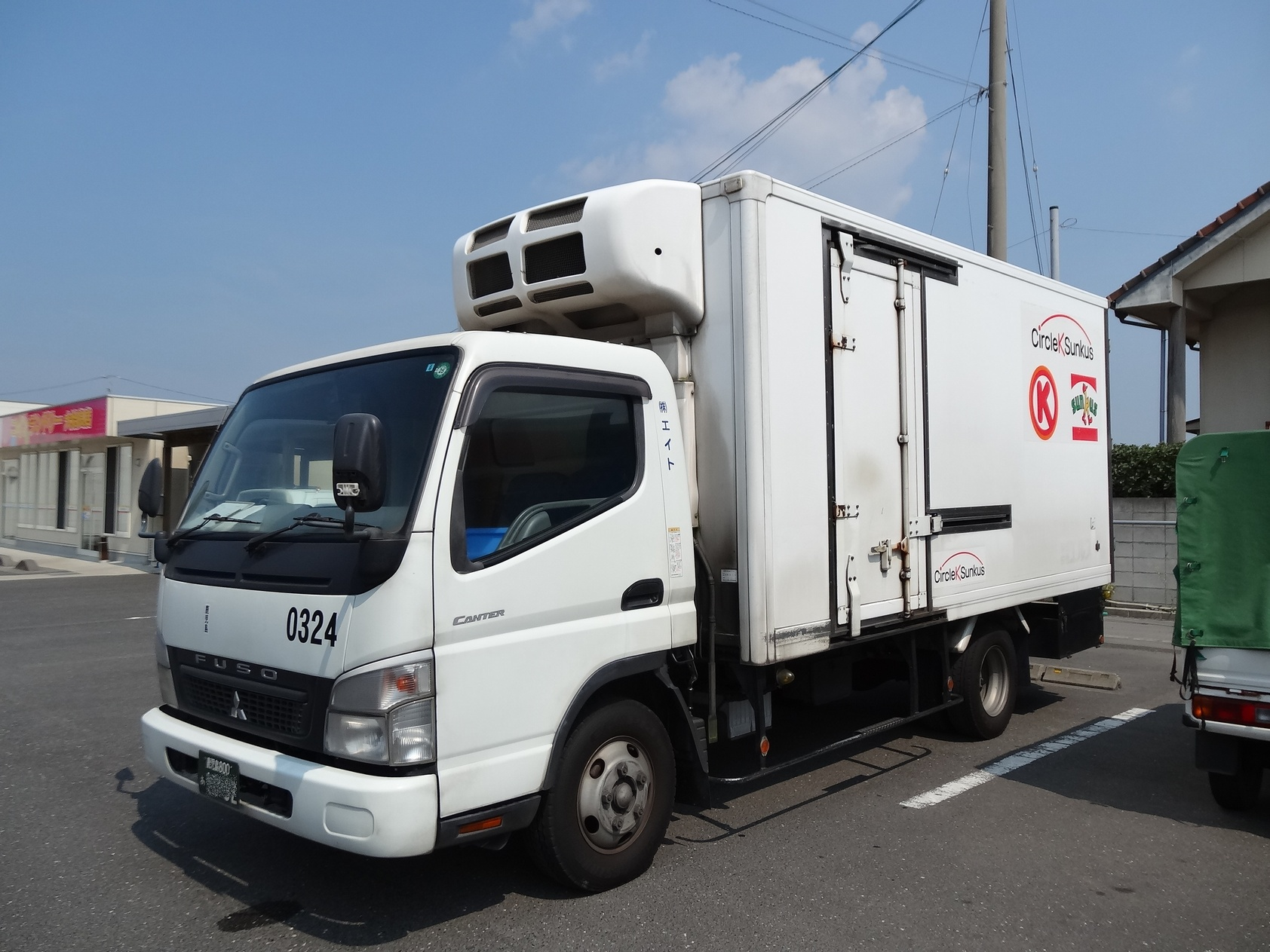 Transportation Truck - Circle K Sunkus (Japanese Convenience store)